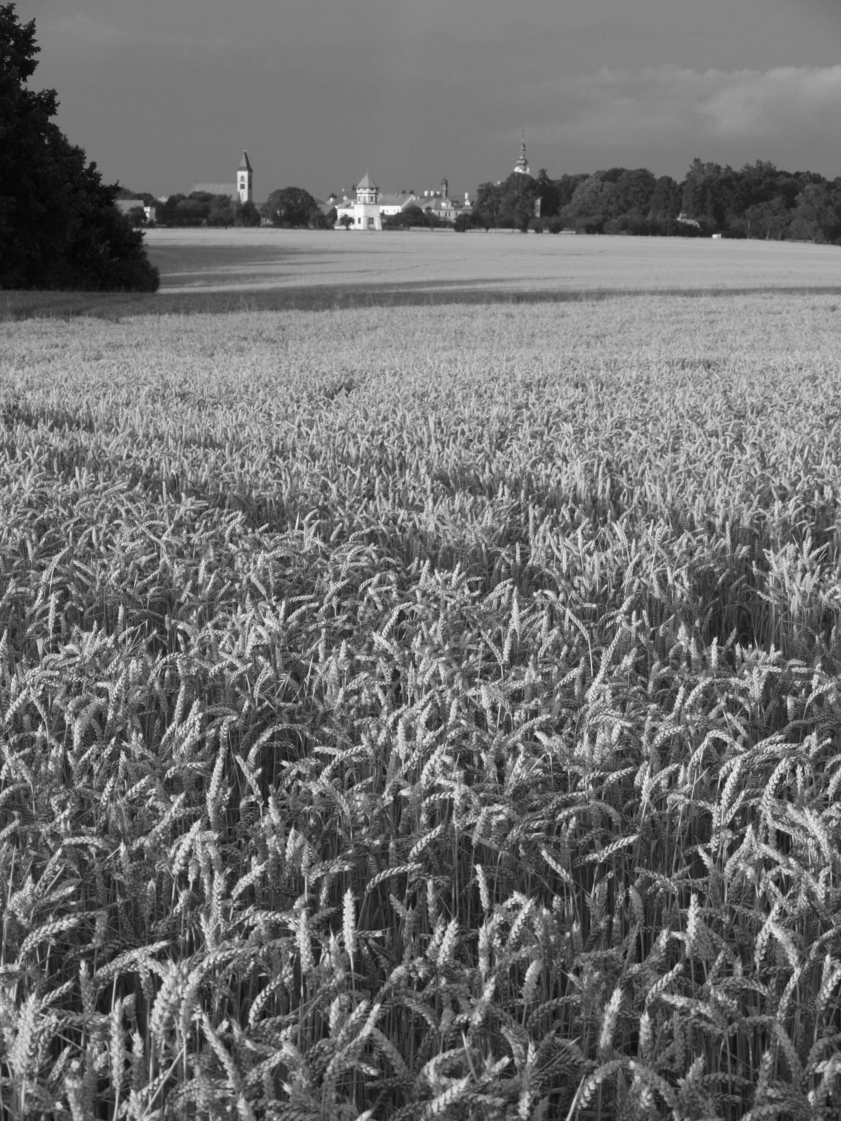 Vidim from St. Venceslaus